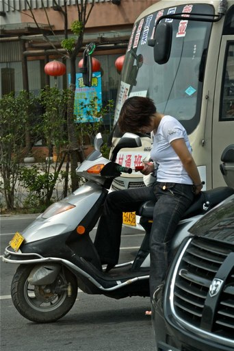 Texting at the traffic lights. She can find the opportunity to send her sms while waiting in traffic in the hot hot sun.